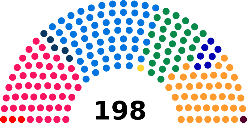 Seats diagramme of Swiss National Council (1925)